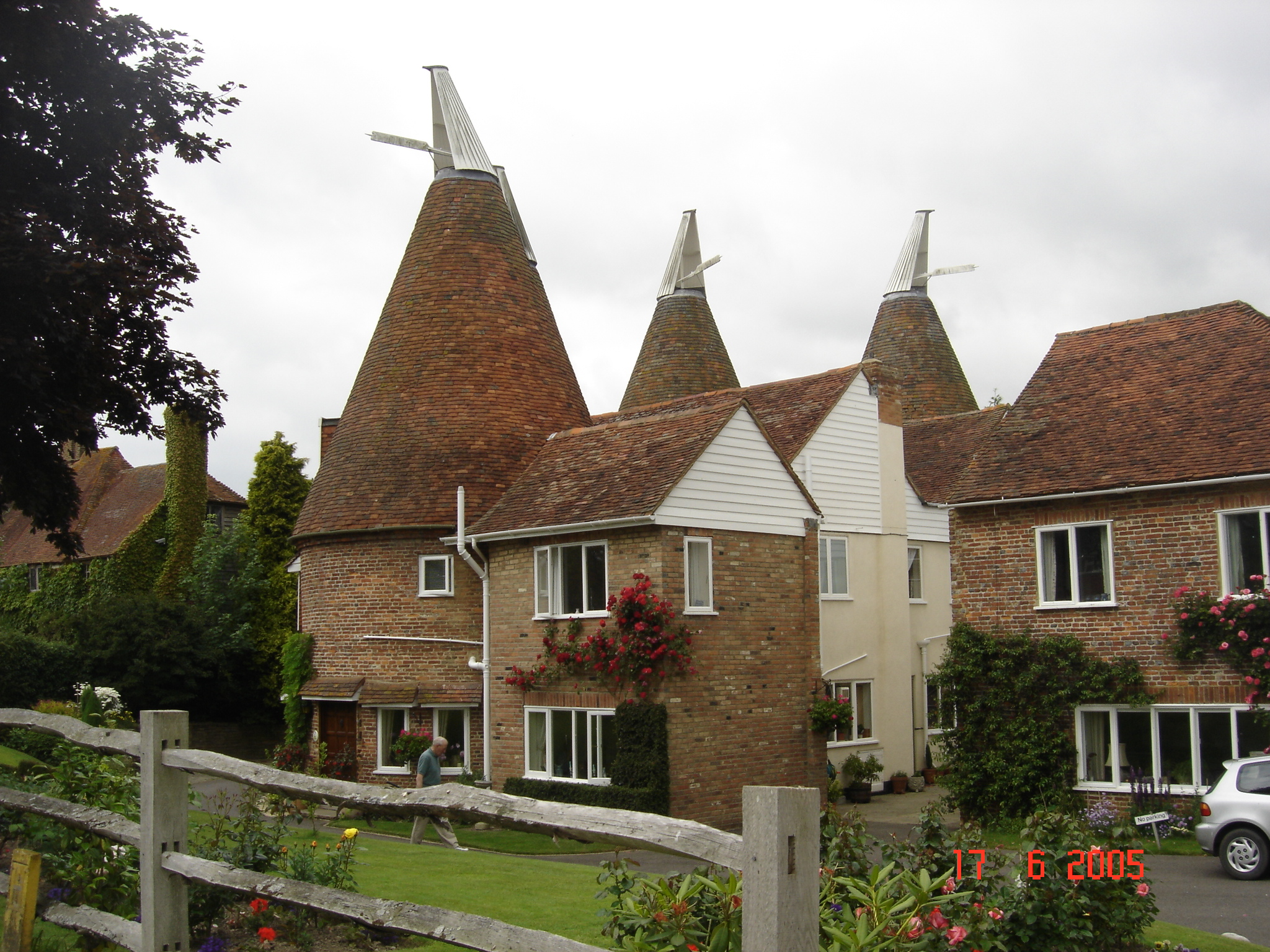 Oast house in Kent